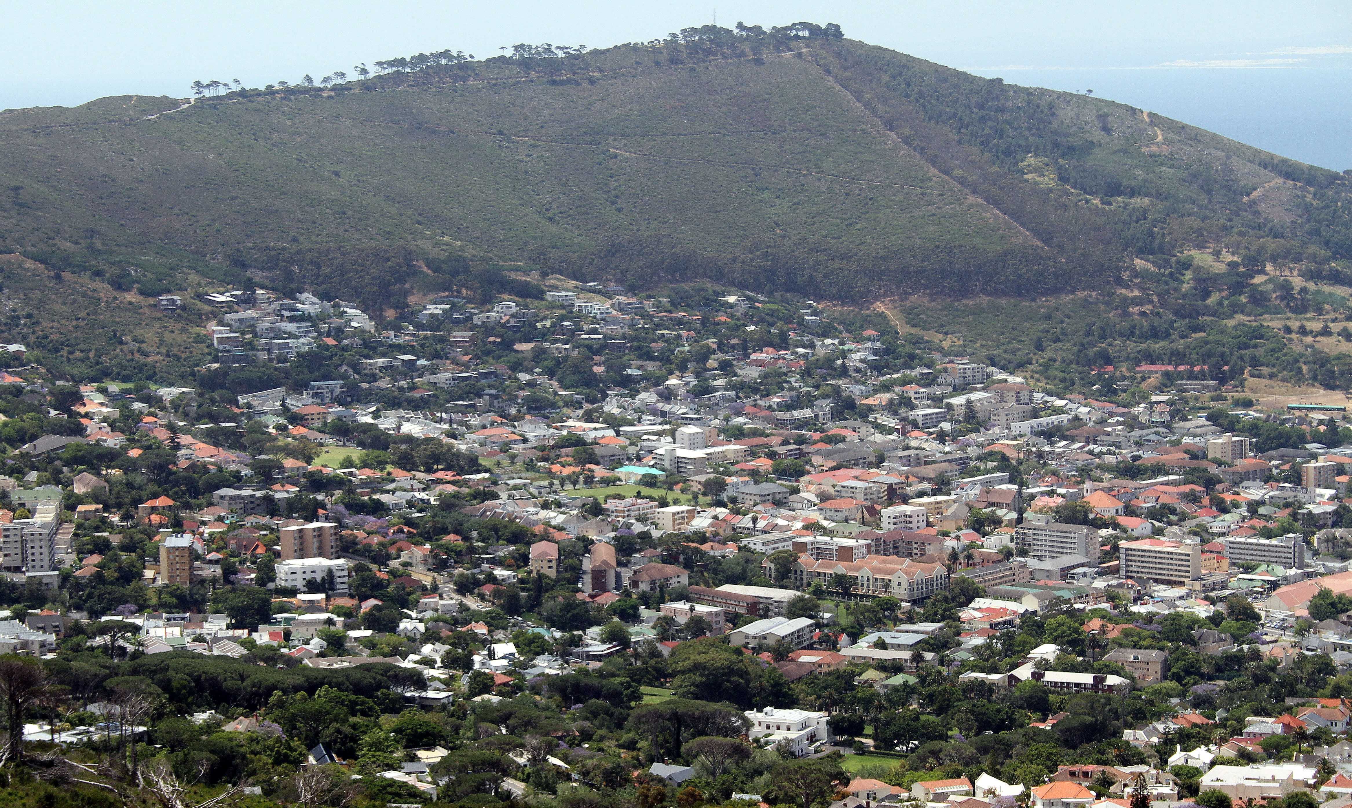 Tamboerskloof and Signal Hill from Tafelberg Road, Table Mountain